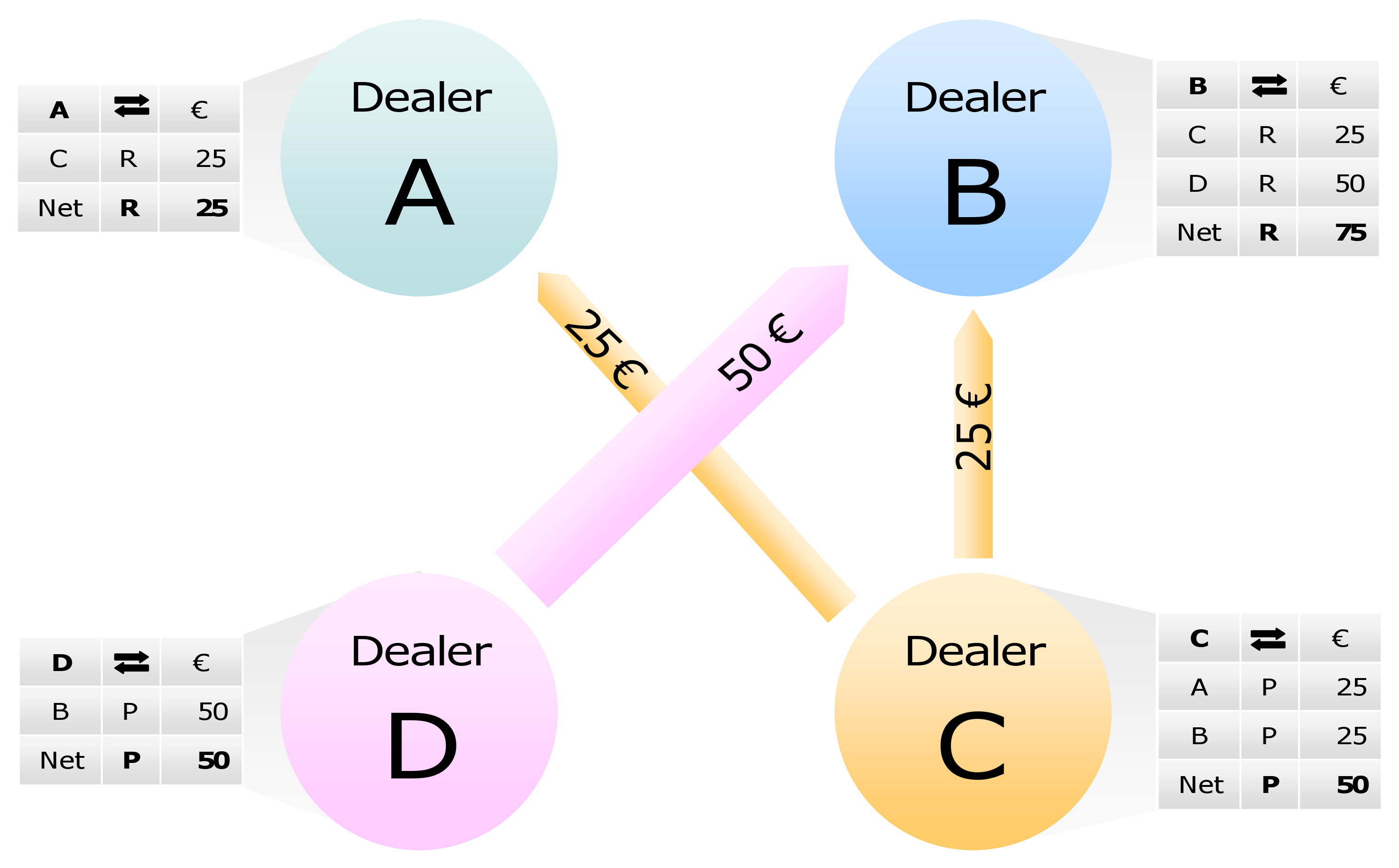 Multilateral trades between four traders after portfolio compression.